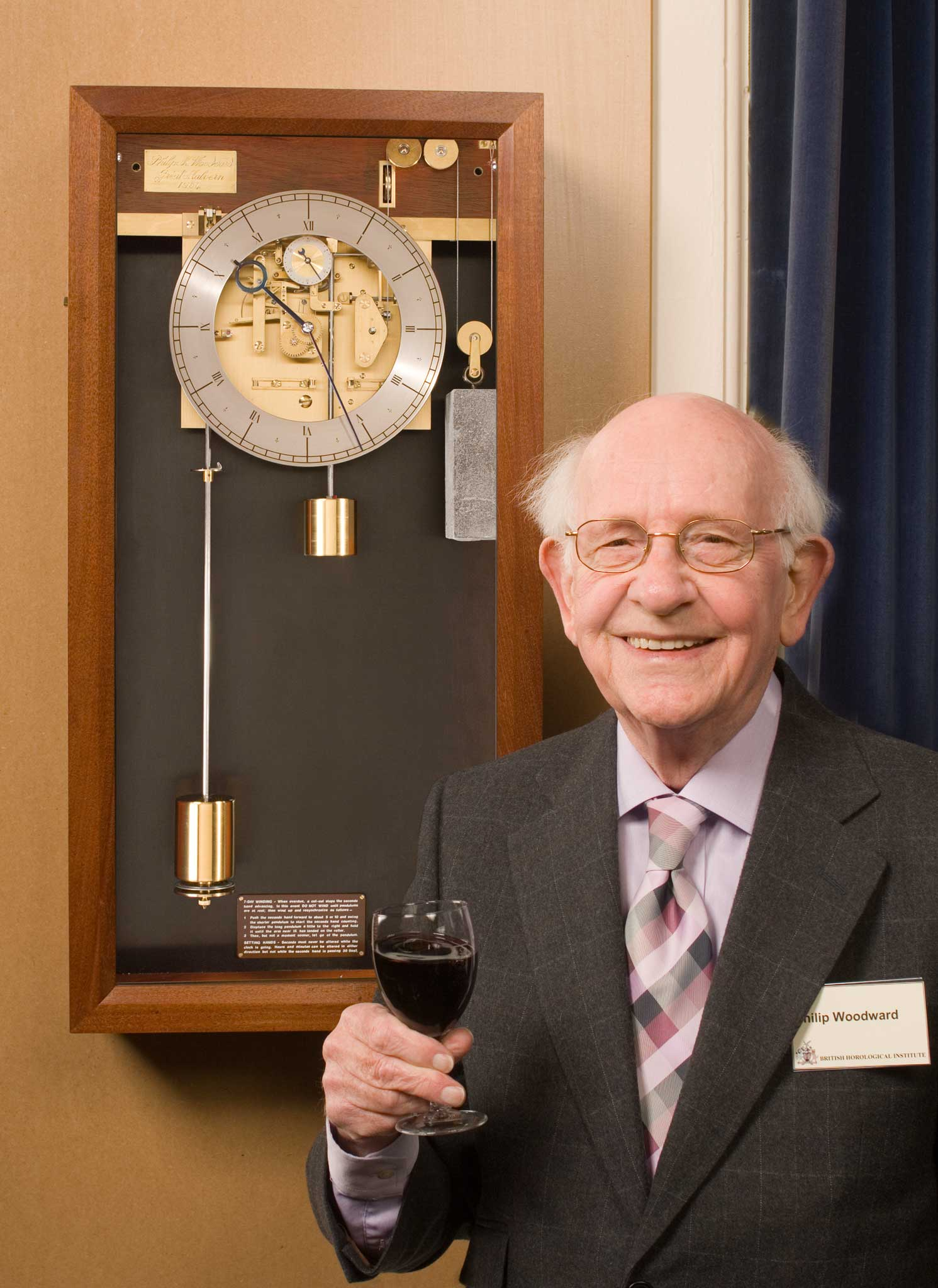 Photo by Bill Taylor ASC, Portrait of Dr. Philip Woodward with his dual gravity escapement clock W5